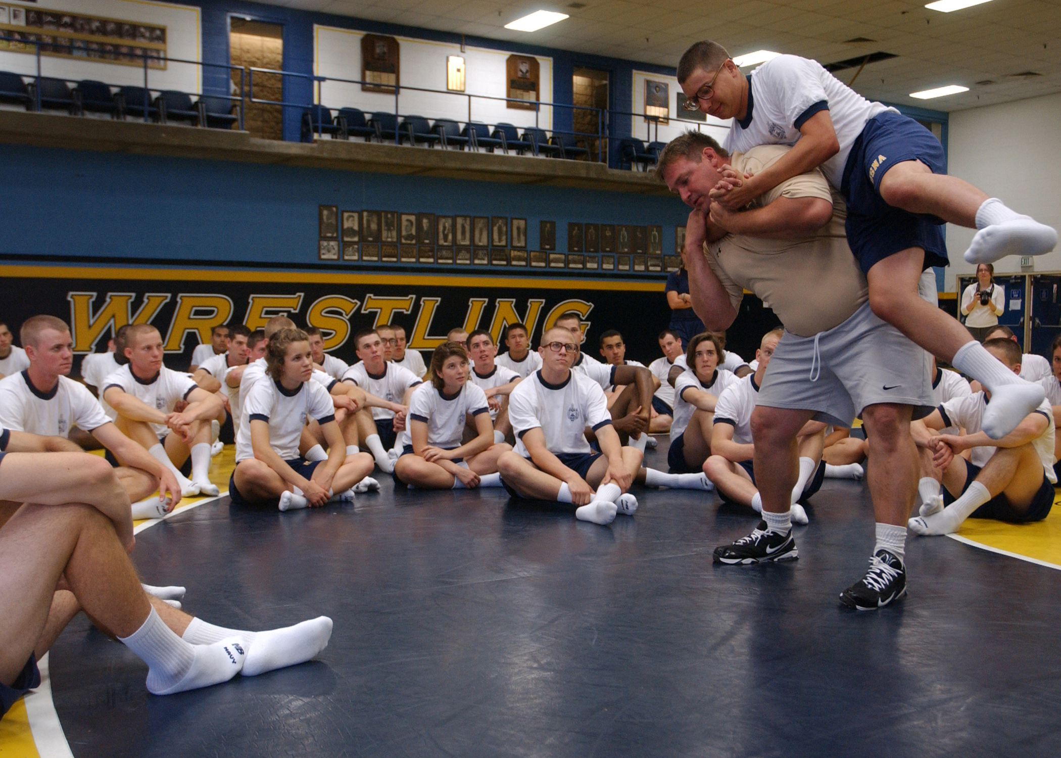 ANNAPOLIS, Md. (Aug. 7, 2009) Plebes from the U.S. Naval Academy receive basic martial arts instruction during Plebe Summer training. Plebe Summer is a physically demanding six-week training session for new Midshipmen designed to transition them from civilian to military life. (U.S. Navy photo by Mass Communication Specialist 1st Class Chad Runge/Released)